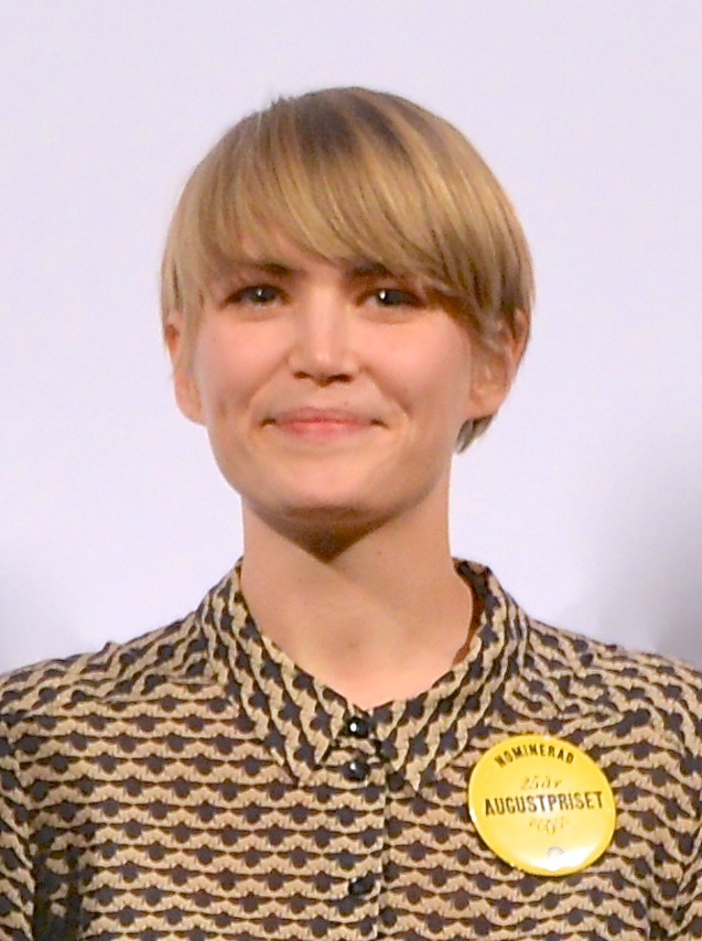 Ellen Karlsson during the nomination for the August Prize 2013 in the category of children and youth. Stockholm, 21 October 2013.